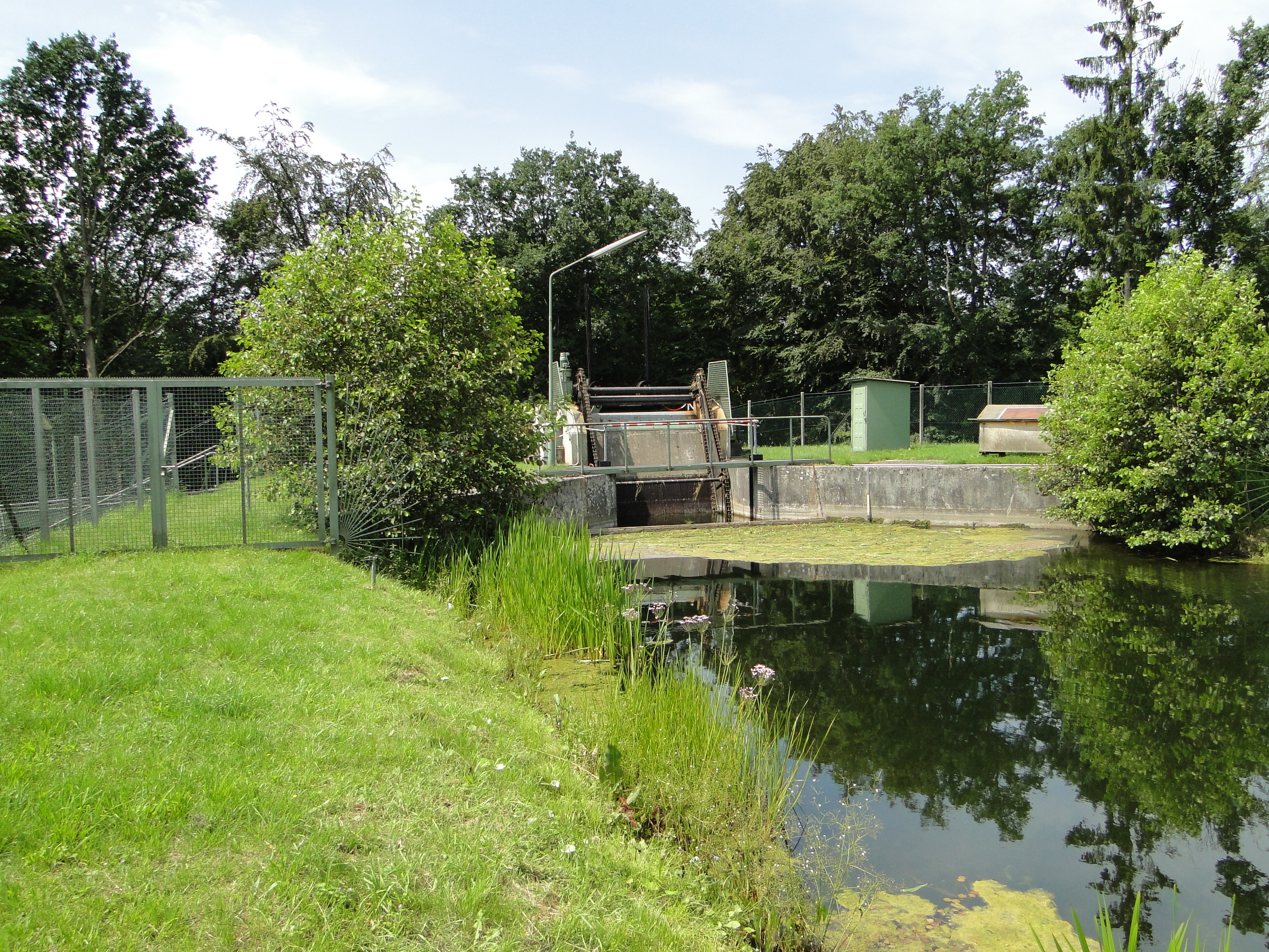 Schaalseekanal and hydoelectric power plant Farchau in Farchauer Mühle, disctrict Herzogtum Lauenburg, Schleswig-Holstein, Germany